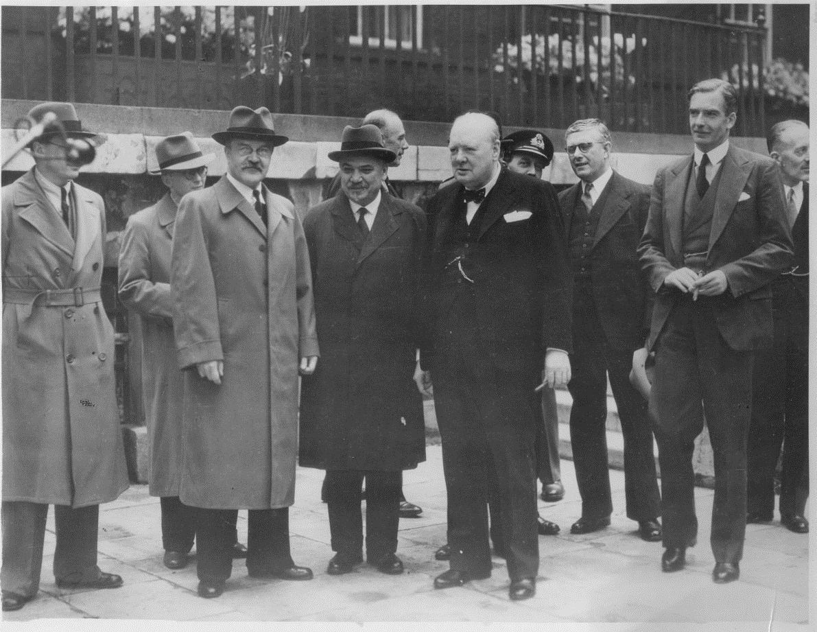 Soviet Minister for Foreign Affairs, Vyacheslav Molotov, Soviet Ambassador to Britain Mr. M. Maisky, British Prime Minister Churchill, Australian Minister for External Affairs, Dr. H.V. Evatt, British Foreign Secretary, Sir Anthony Eden, and British Permanent Under-Secretary for Foreign Affairs, Sir Alexander Cadogan, in the garden of 10 Downing Street during Mr Molotov’s 1942 visit to Britain for the signing of the 20 Year Mutual Aid Pact.